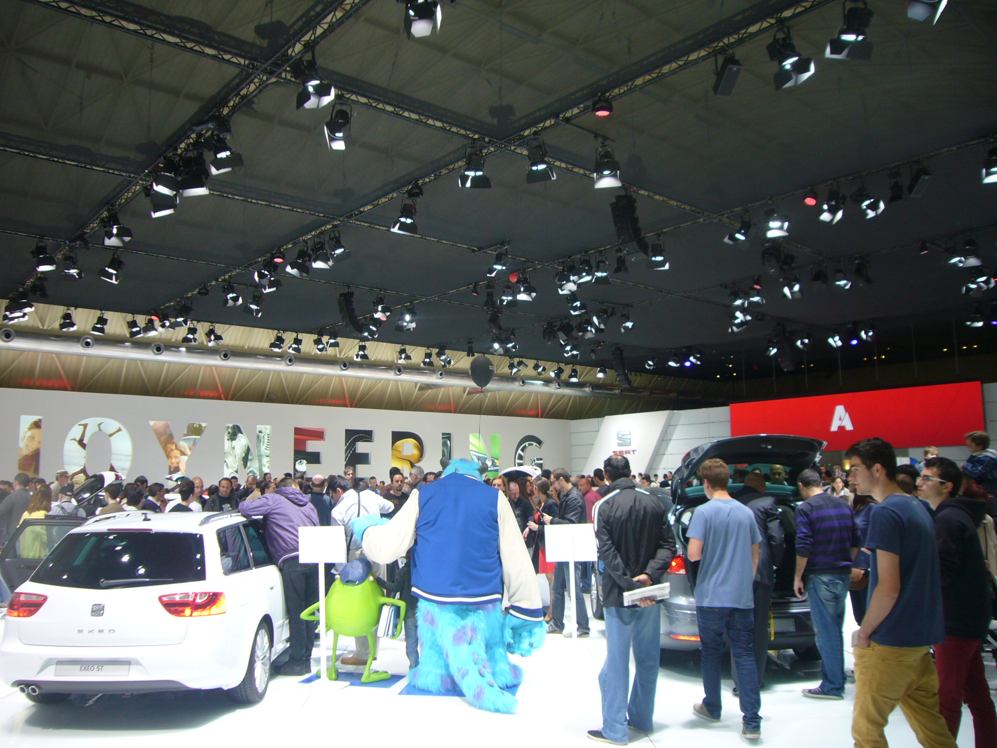 Barcelona Motor Show 2013 - Seat Exeo